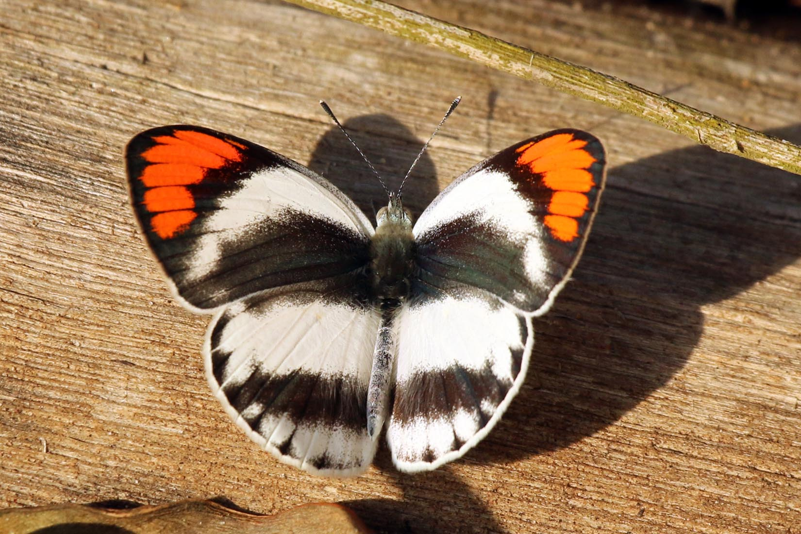 Smoky orange tip butterfly (Colotis euippe omphale) male, Lake Sibaya, KwaZulu Natal, South Africa